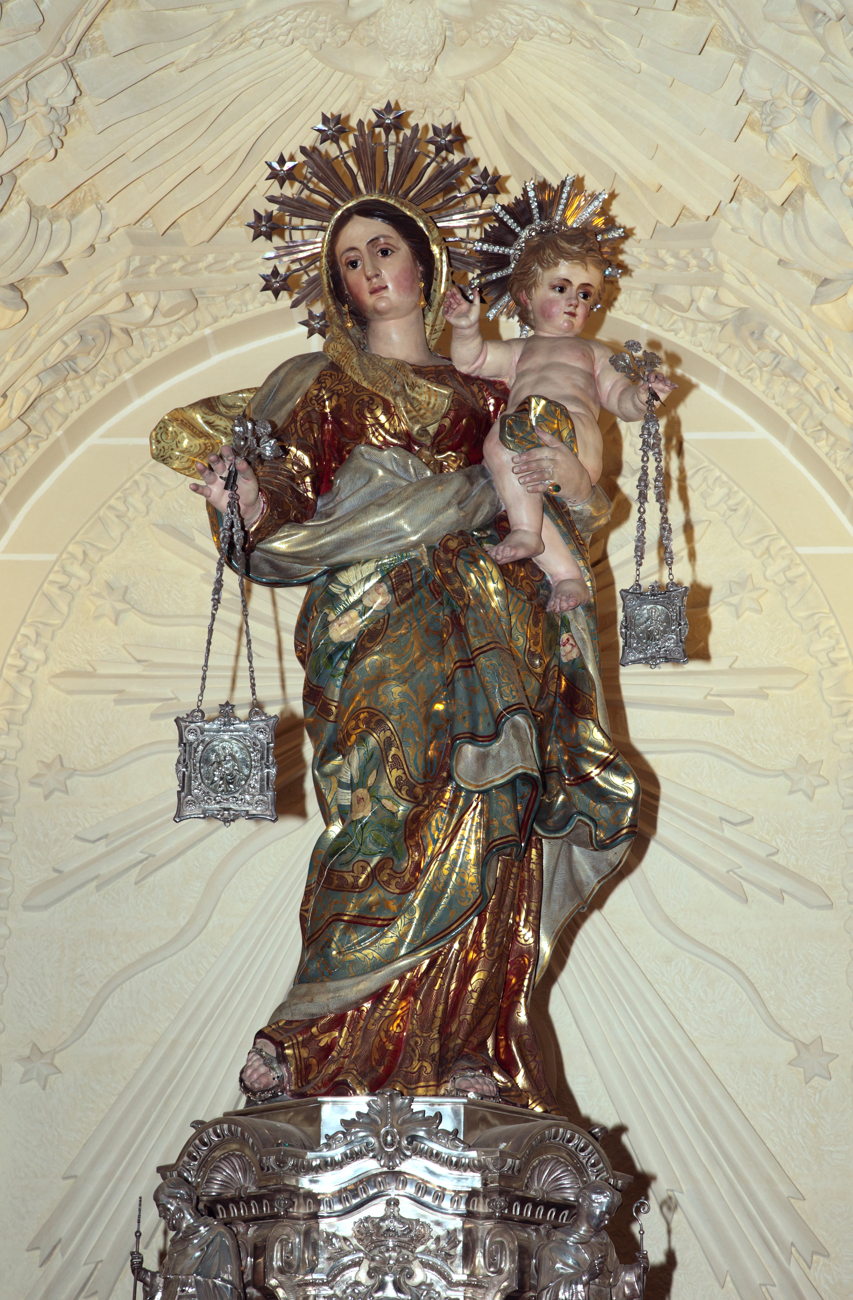 Statue of the Madonna with Jesus at Carmelite Church, Valletta, Malta